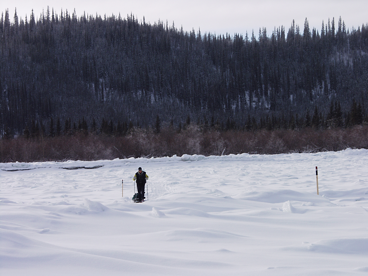 Stefano Miglietti, running on the iced Yukon River (YAU), Canada 2005